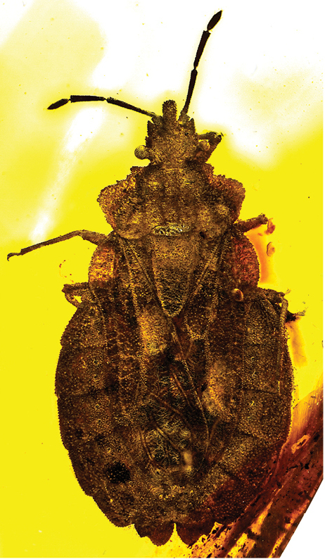 Aradus macrosomus 1 – dorsal view